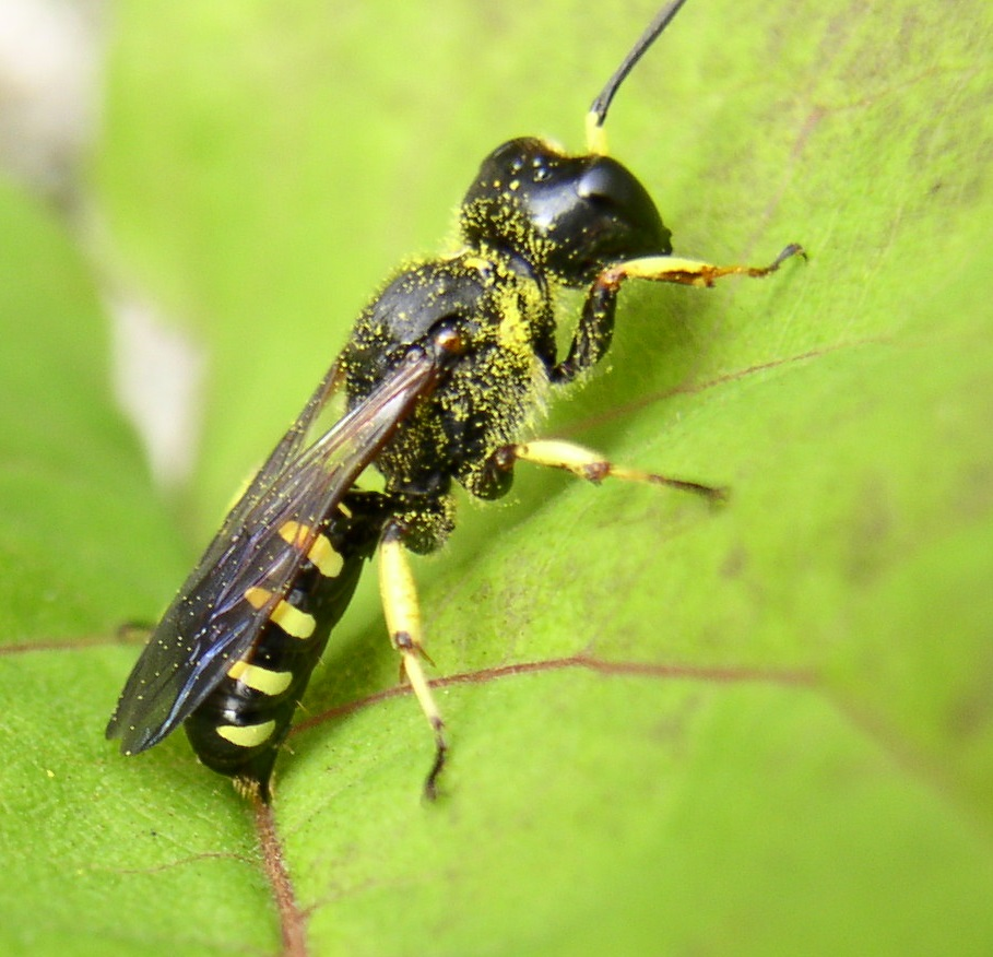 Square headed wasp, Ectemnius maculosus. Rock Harbor, Isle Royale, Houghton County, Michigan, USA.